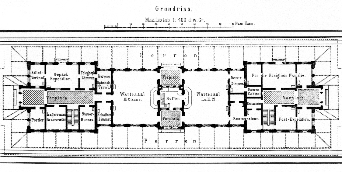 The use of the Railway station Nordstemmen in the year 1861.